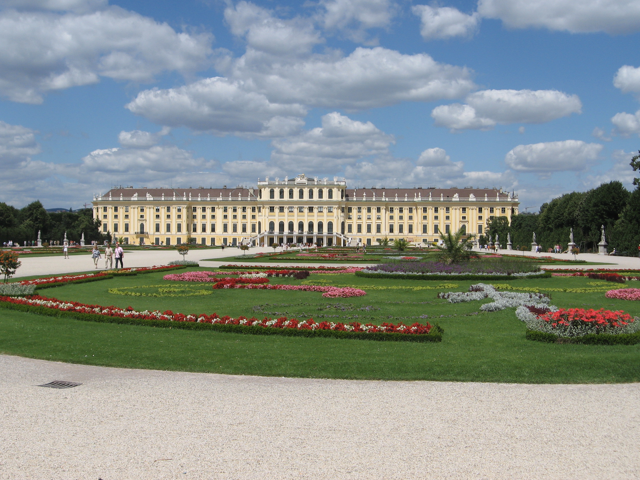 Austria, Vienna, Schönbrunn Palace